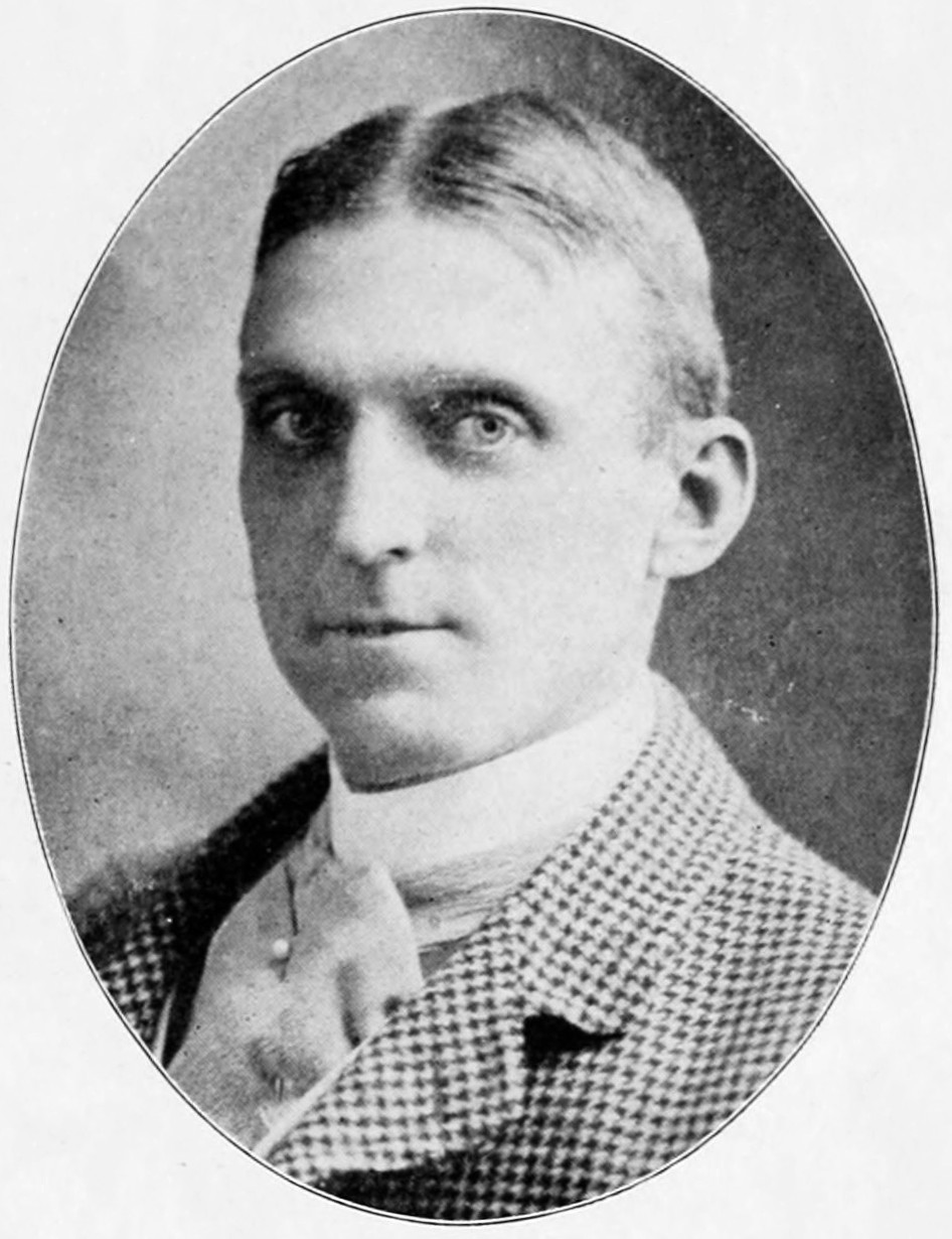 Source: Men of Buffalo; a Collection of Portraits of Men Who Deserve to Rank as Typical Representatives of the Best Citizenship, Foremost Activities and Highest Aspirations of the City of Buffalo. Chicago. A. N. Marquis & Co., 1902, p. 411.